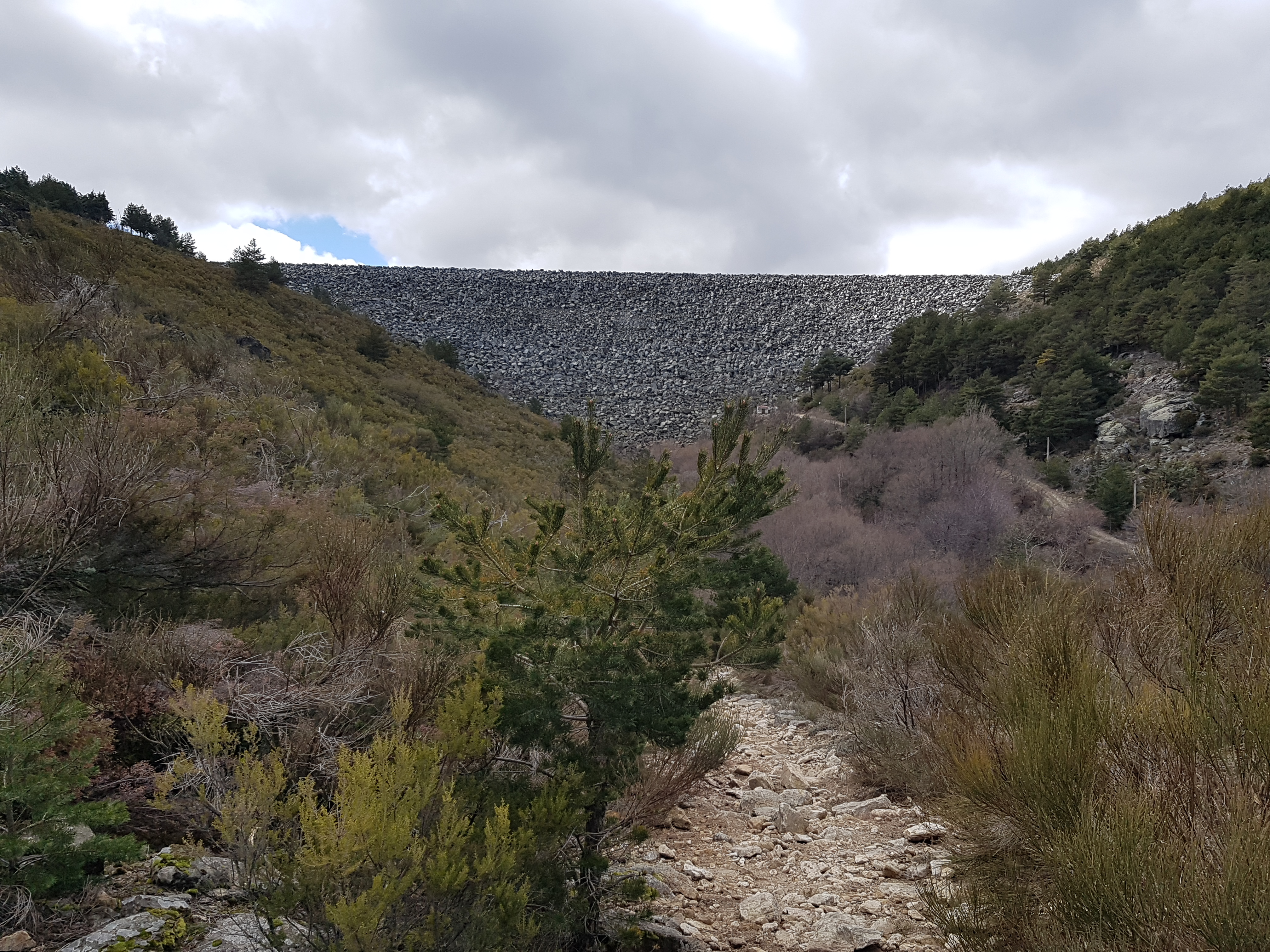 Dam of Navamuño. View from the valley.